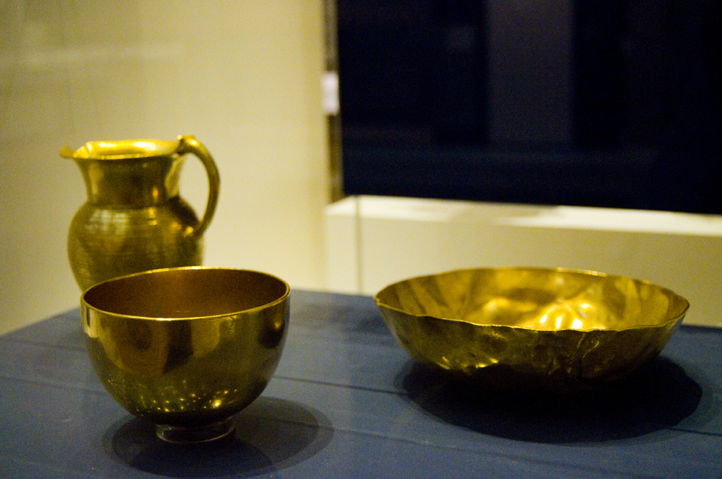 Gold vessels and table ware from the Oxus Treasure. Now displayed at the British Museum